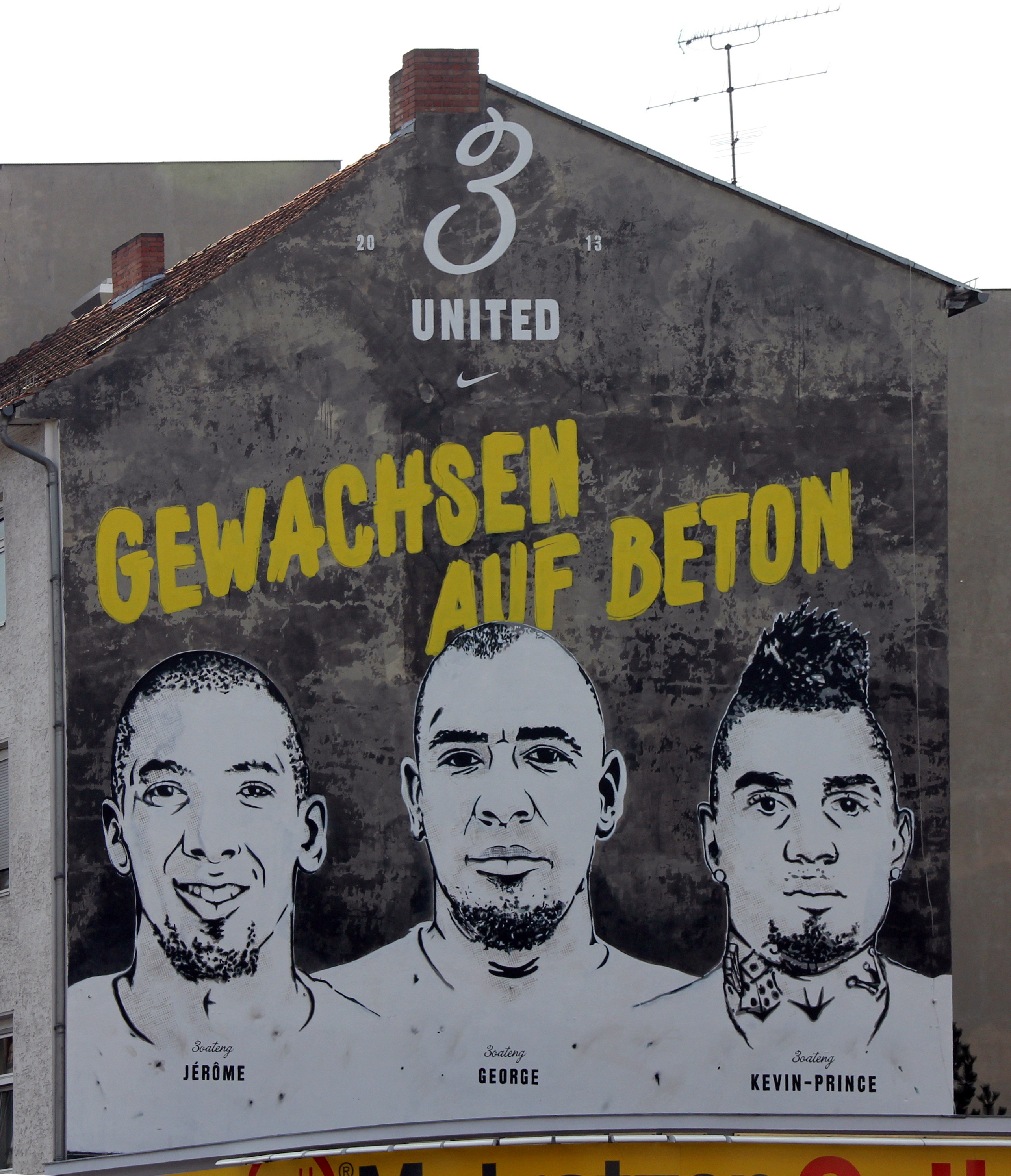 Murals, "Gewachsen auf Beton", 2013, Badstraße 53, Berlin-Gesundbrunnen, Germany